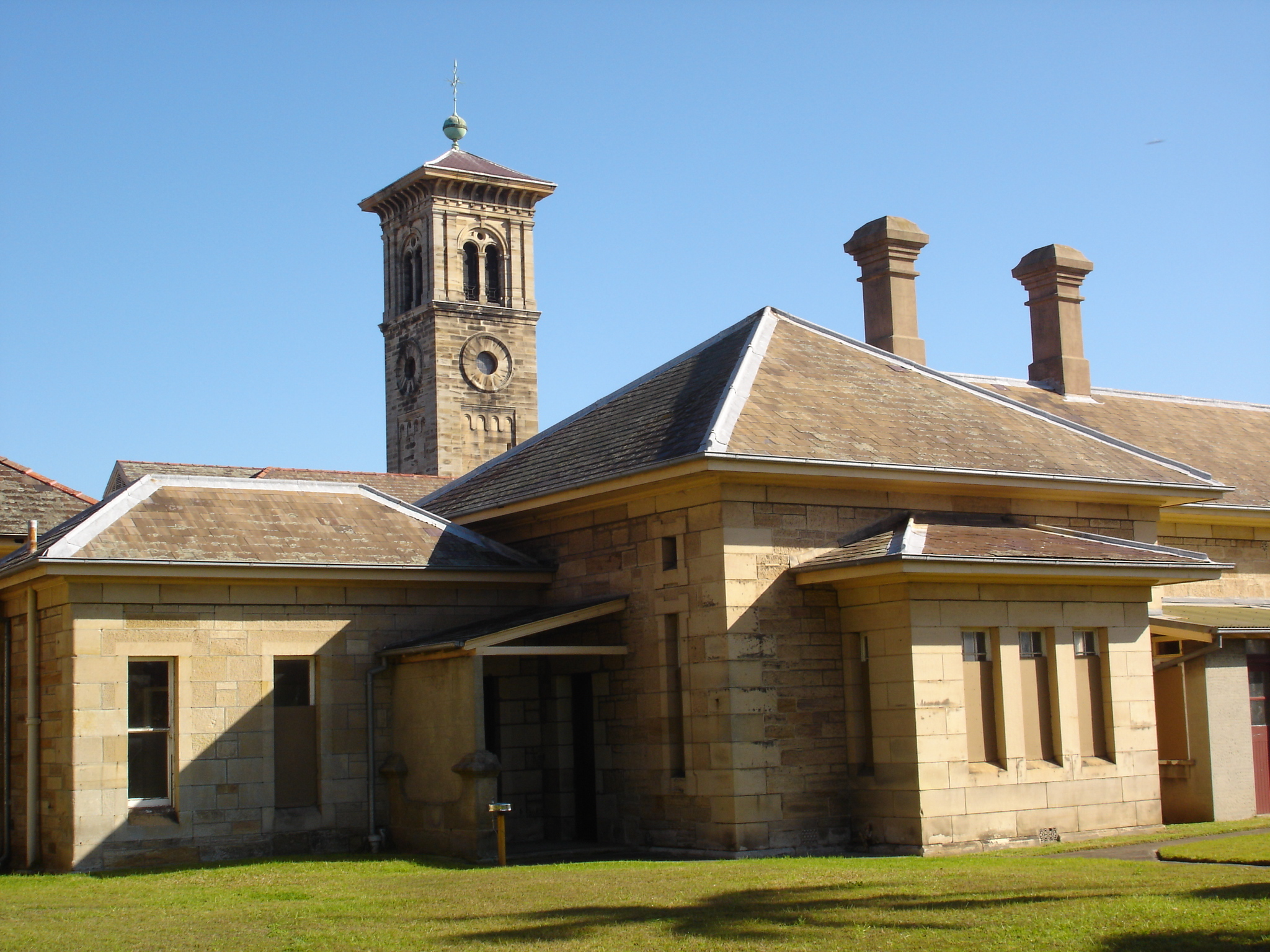 Callan Park, Rozelle, New South Wales, Australia. Previously a Mental Hospital, now Sydney College of the Arts campus.